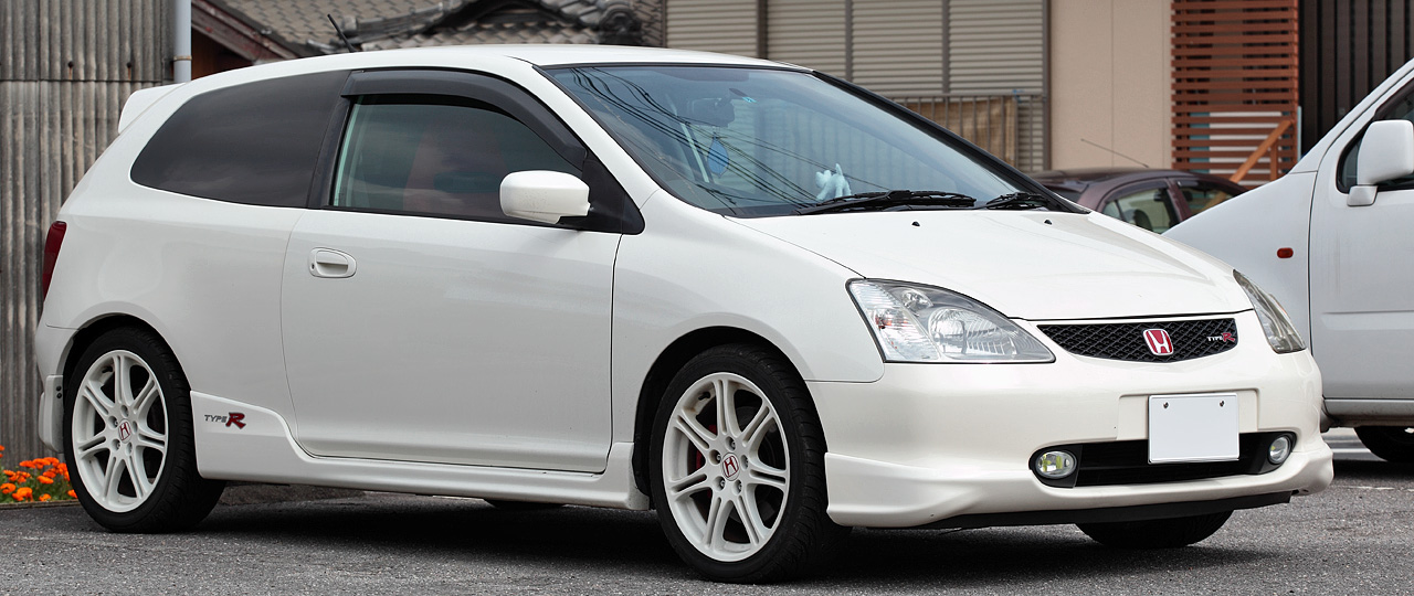 Honda Civic Type R ( EP3 )